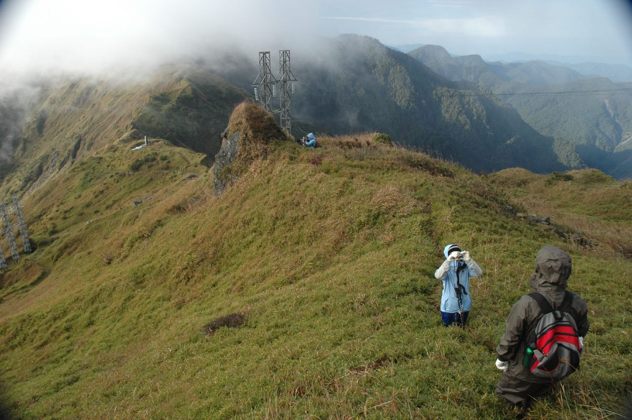 Hiker takes a photo near Nenggao Saddle with her camera while hiking in the alpine. 345 kV-powerline crossing the border between Nantou and Hualien over the ridge on the Central Mountain Range.